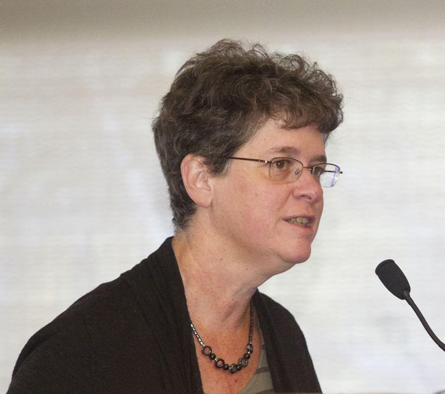 Photograph of Erica Golemis, from Fox Chase Cancer Center, at "Frontiers of Discovery: AWIS at 40 Years", celebrating the founding of the Association for Women in Science (AWIS), taken 21 October 2011, at the Chemical Heritage Foundation, Philadelphia, PA, USA.